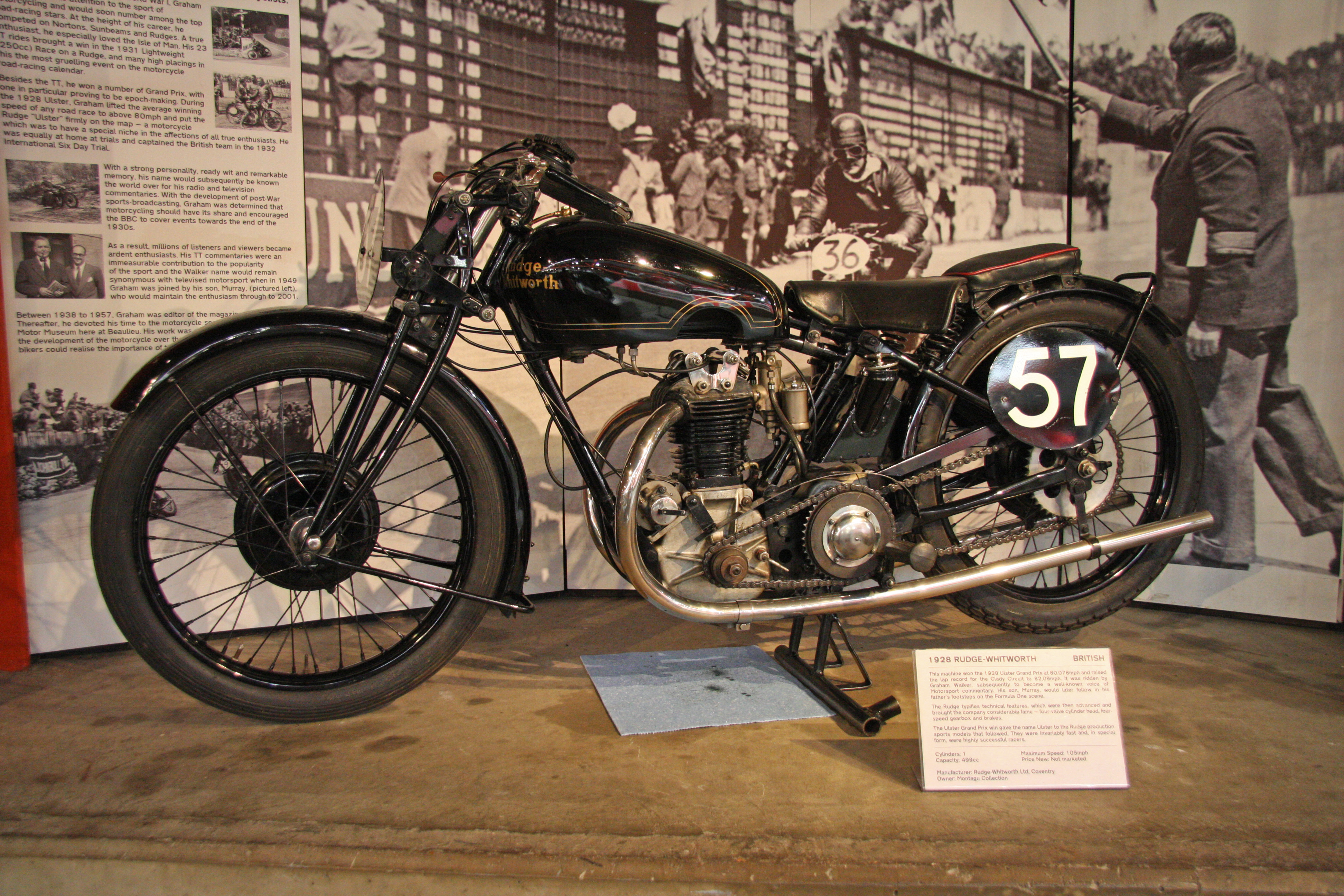 Ridden by Murray Walker's father Graham. 499cc single cylinder